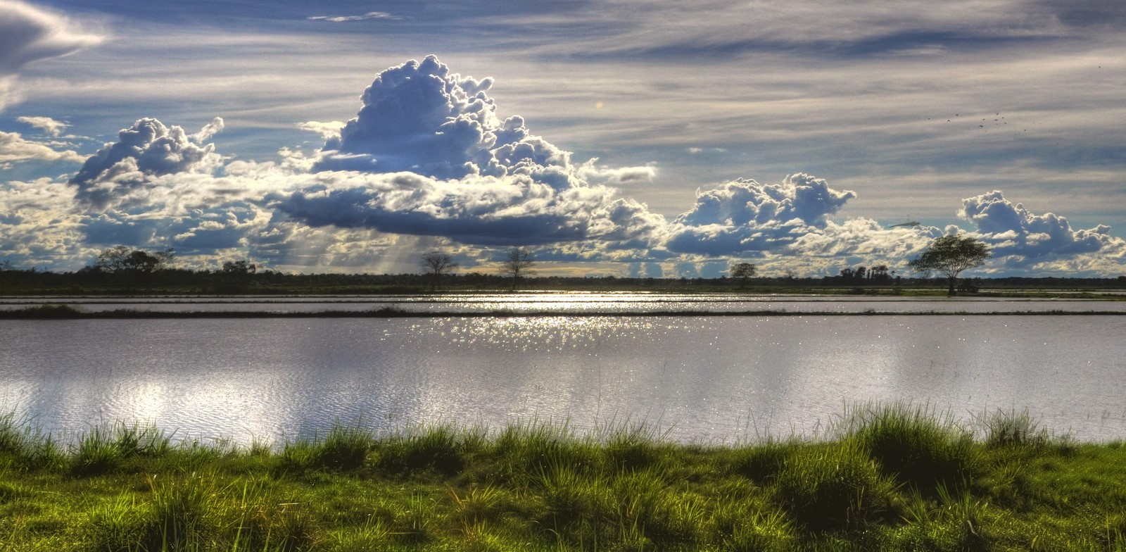 Sun Set in the rice fields